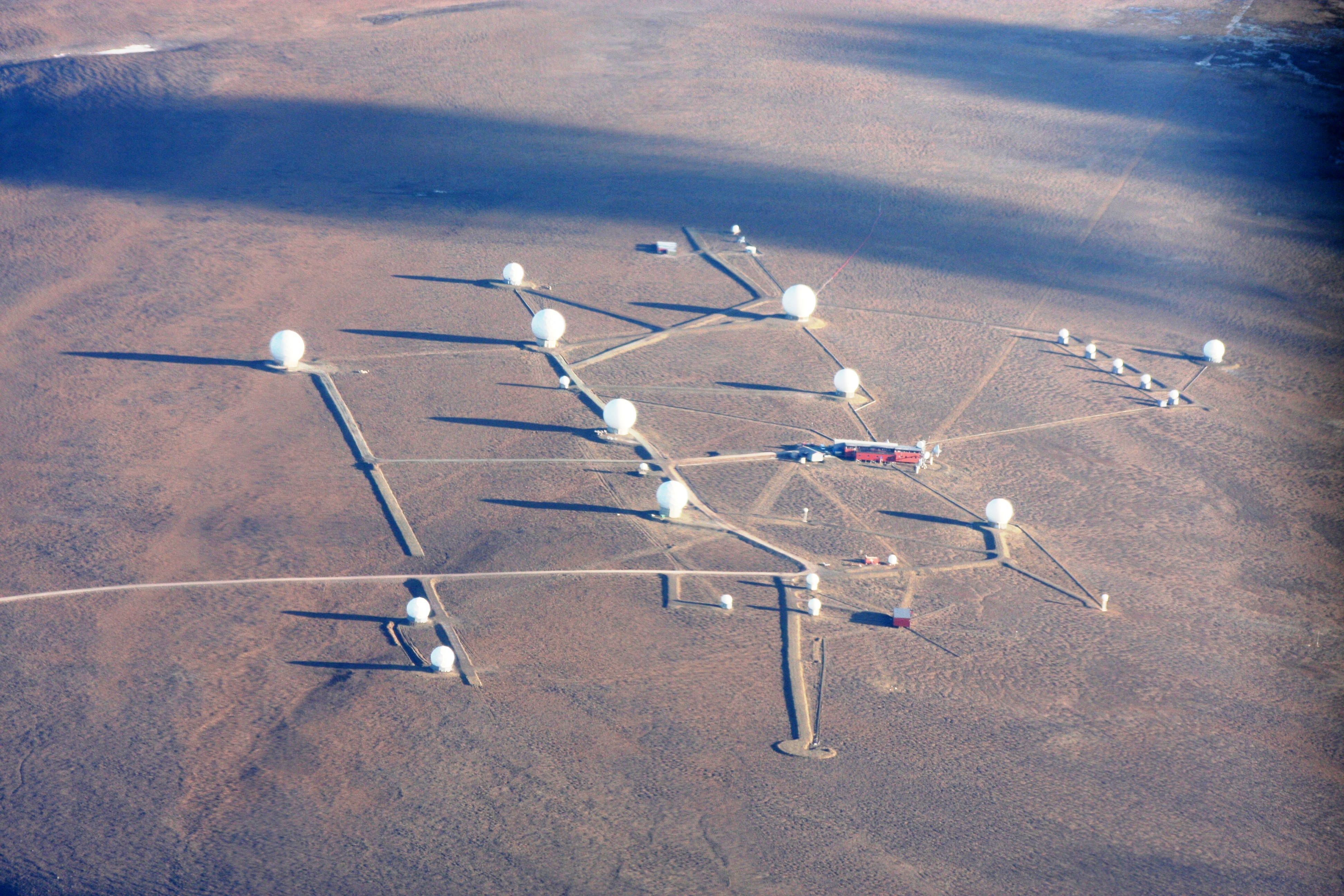 Plattaaberget, just west of Longyearbyen, Spitsbergen. SvalSat facility